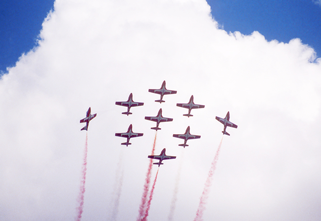 Canadian air force Snowbirds aerobatic team, flying CT-114 Tutors, performing at CFB Edmonton (Namao) May 20, 1990. This was the team's 1000th official show. Colored smoke was used for major shows that year.